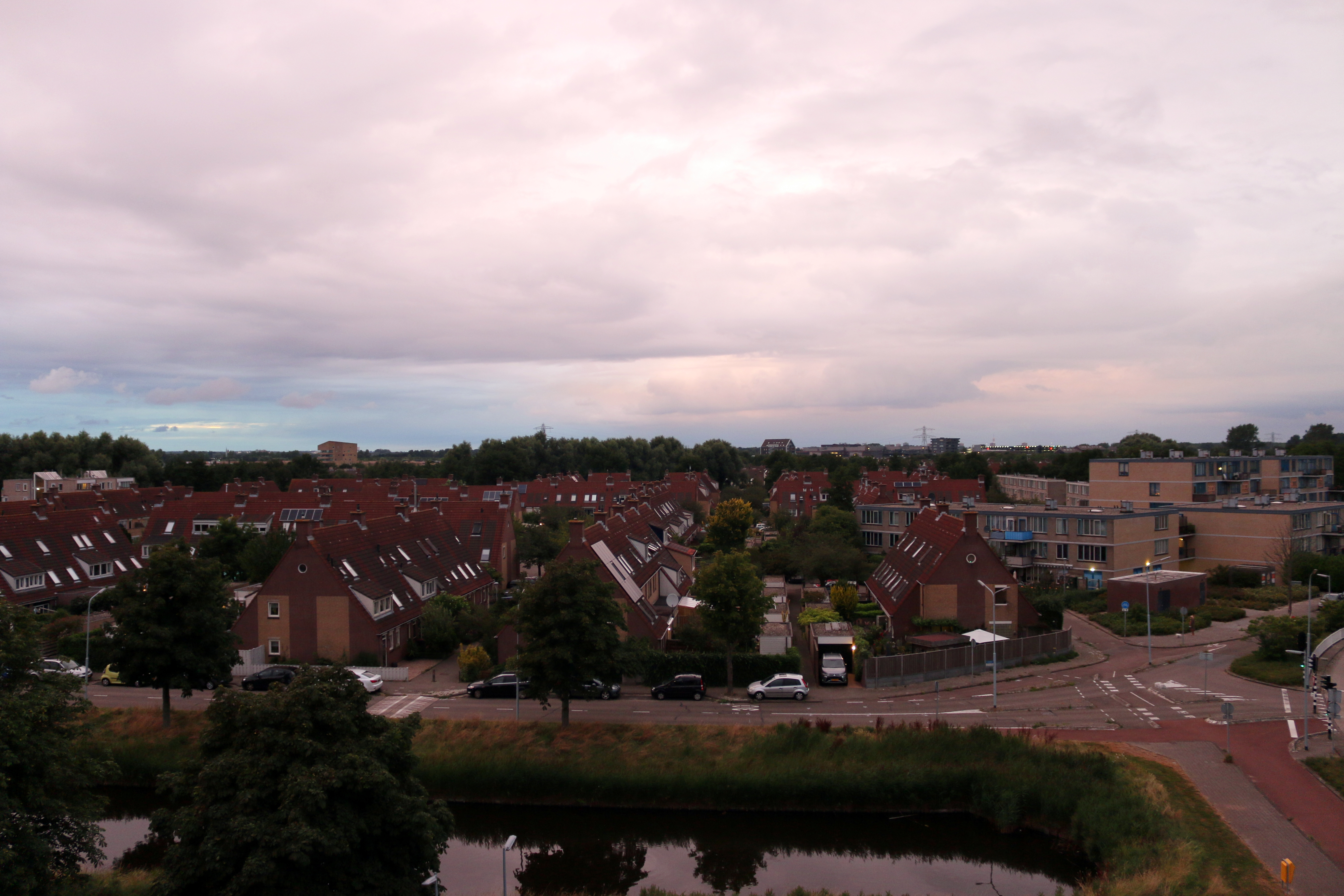 Hoofddorp -- Photo by Persian Dutch Network